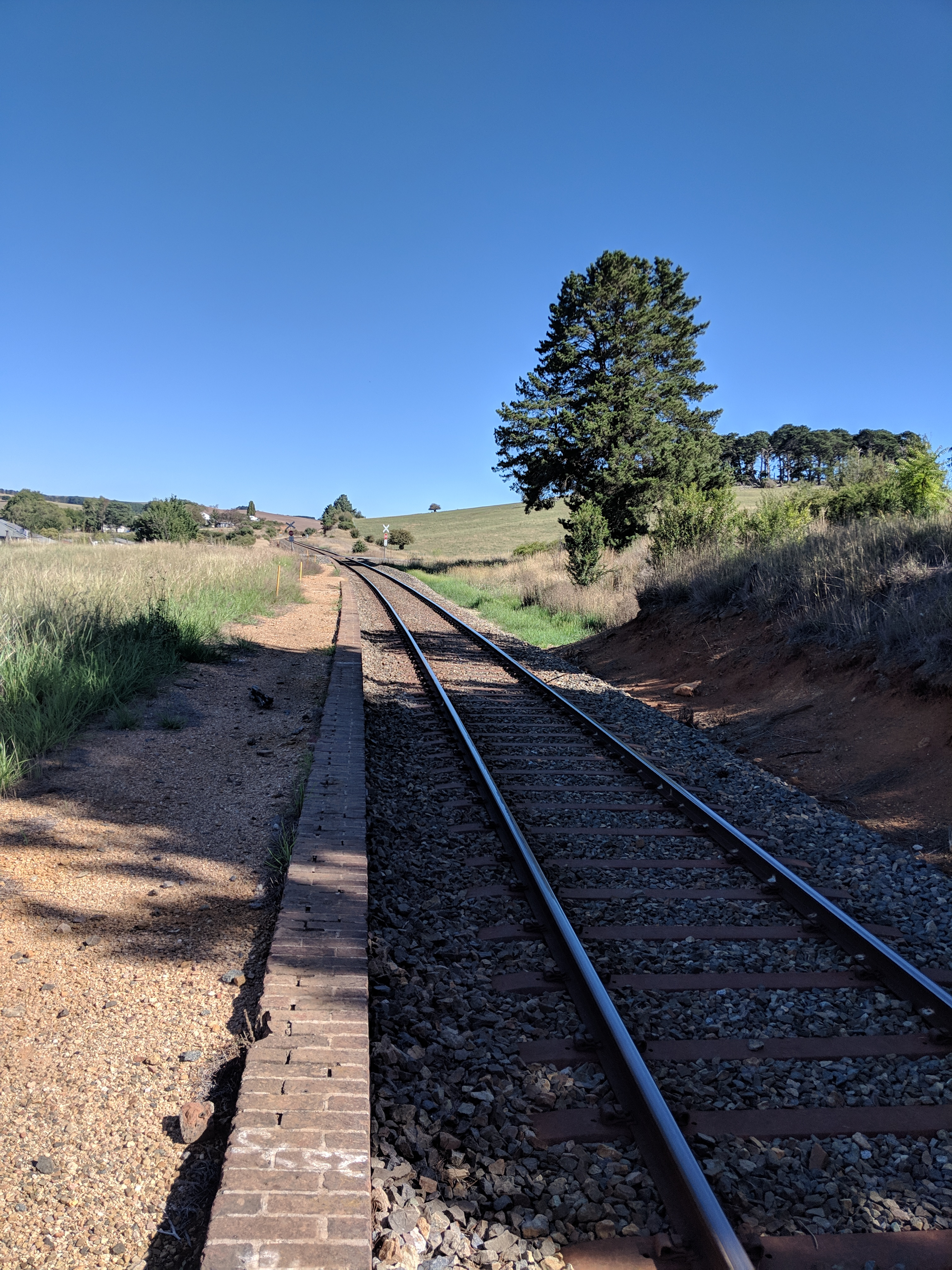 Former Lake Bathurst station, New South Wales